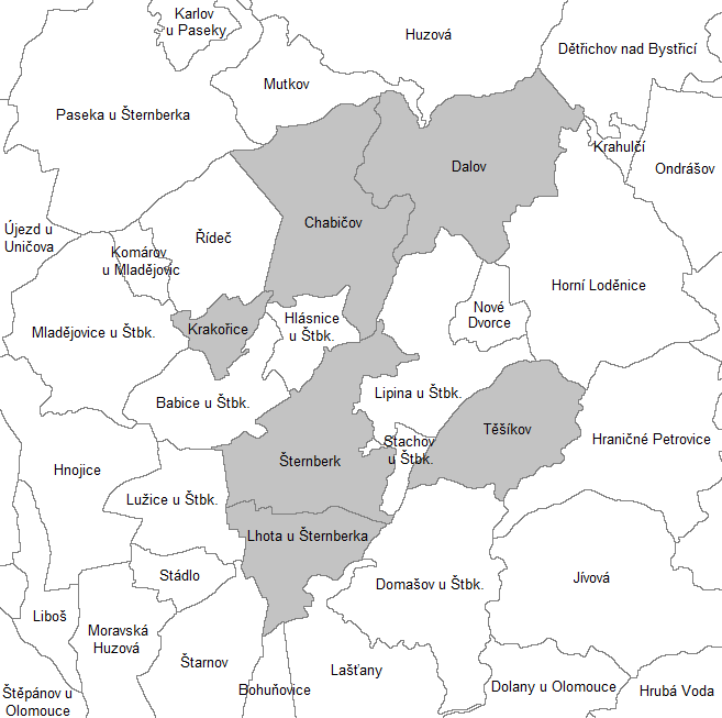 Cadastral map of Šternberk